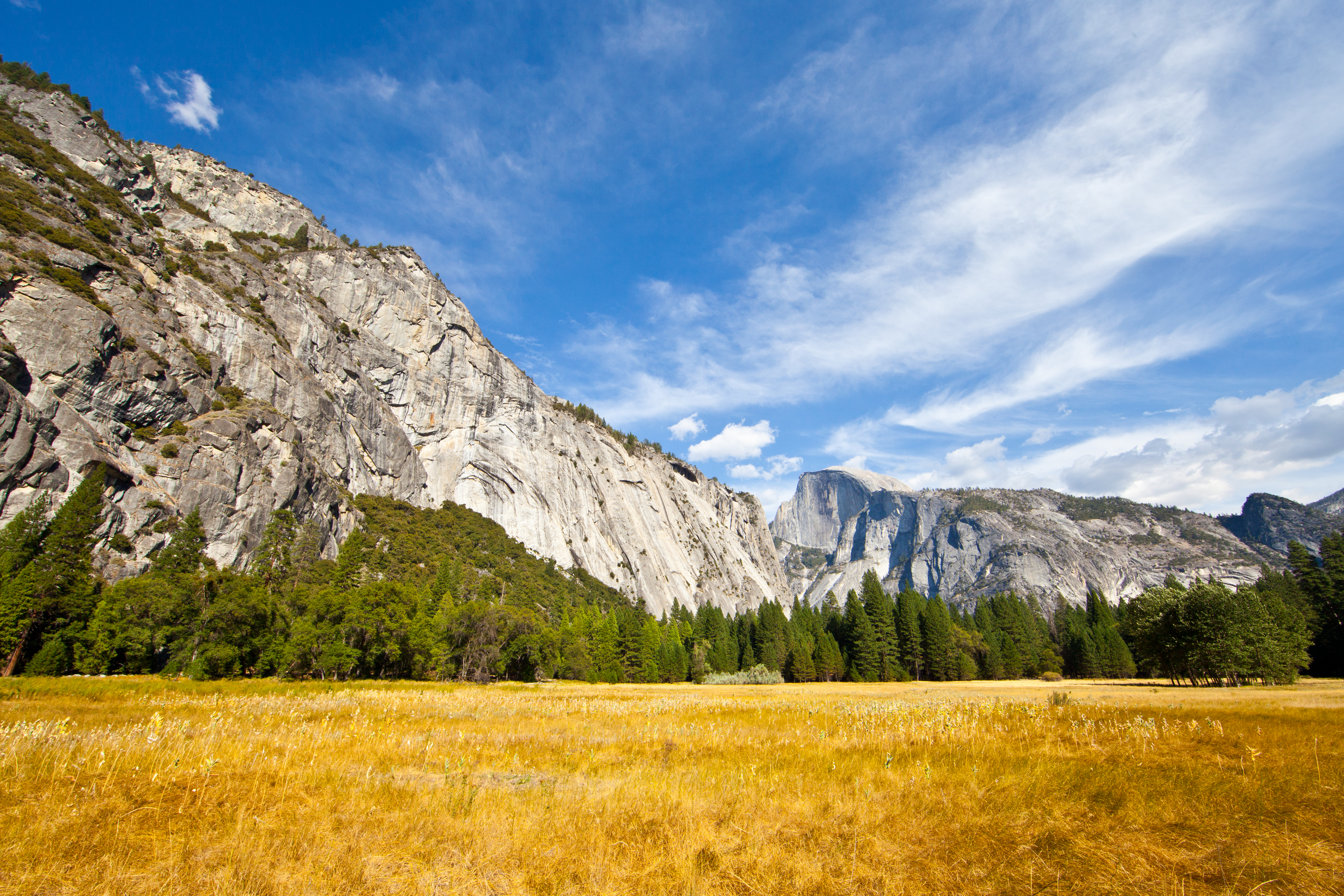 Yosemite Valley